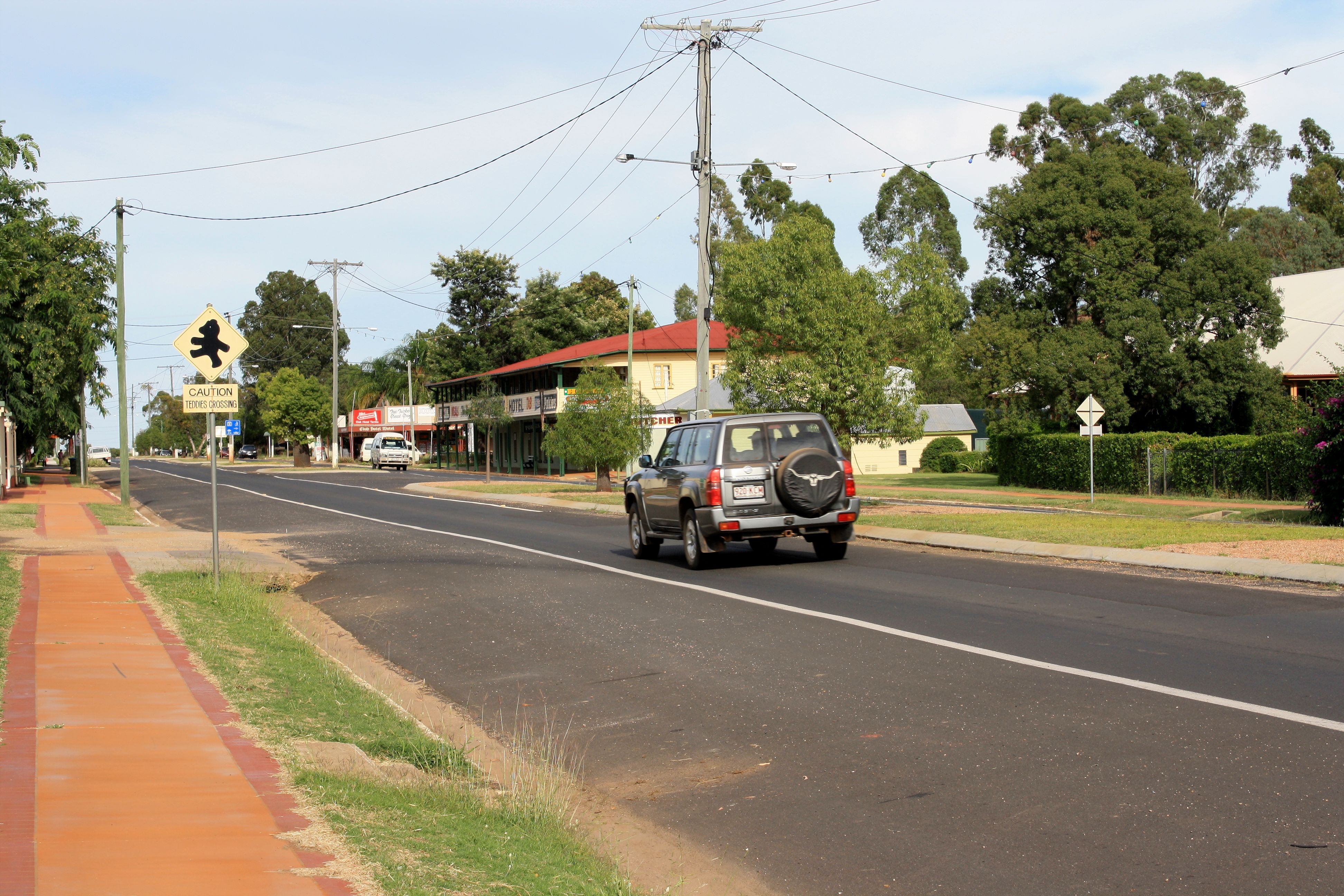 Main street Tambo.